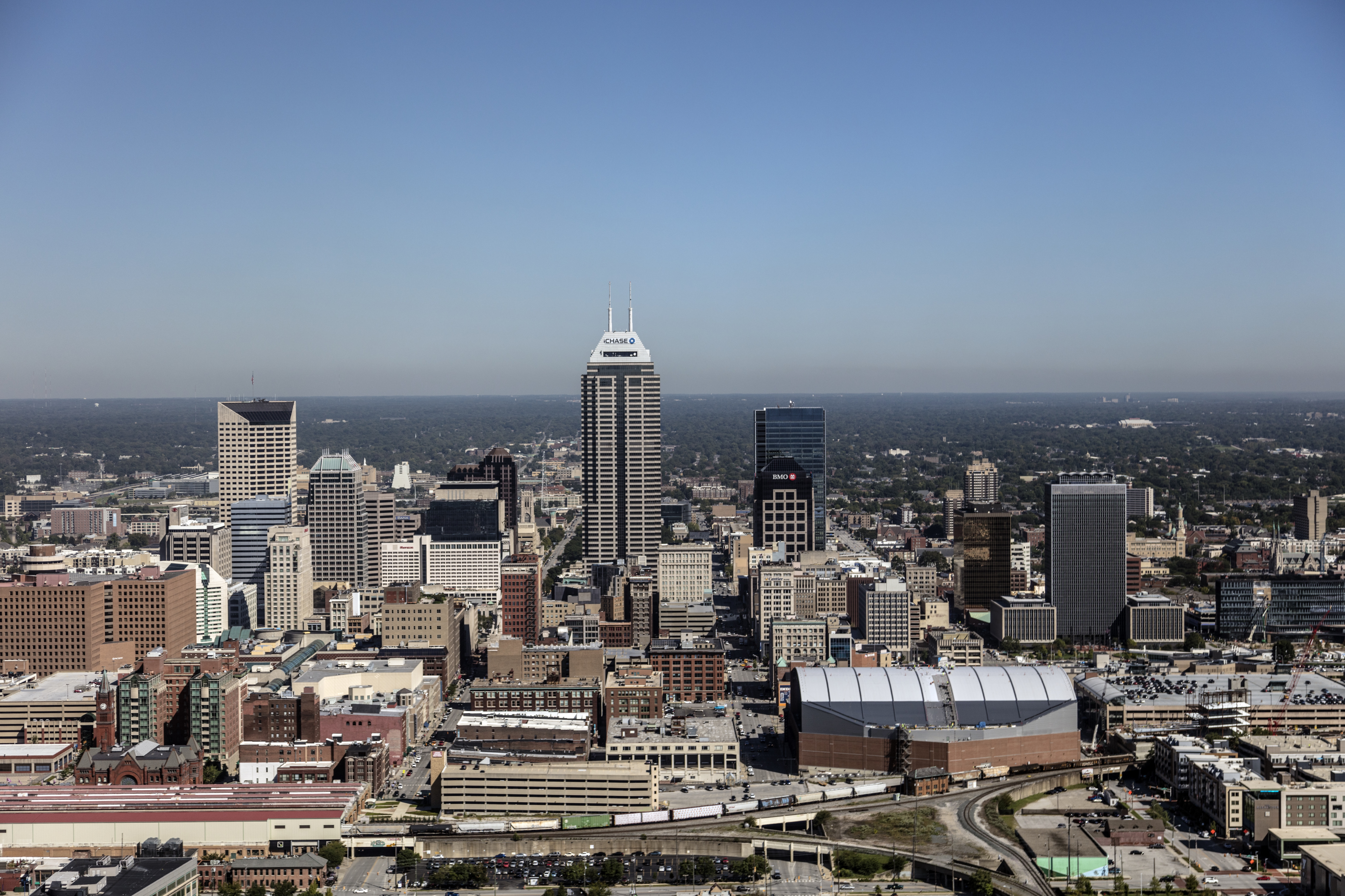 indianapolis Dari: indianapolis